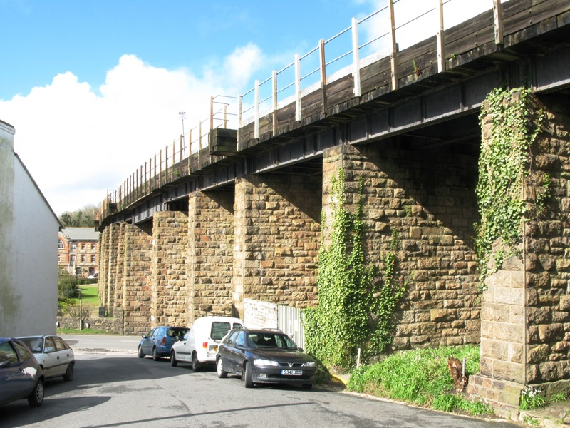 Hayle viaduct, Cornwall, United Kingdom, seen from the approach to the westbound platform of the railway station.